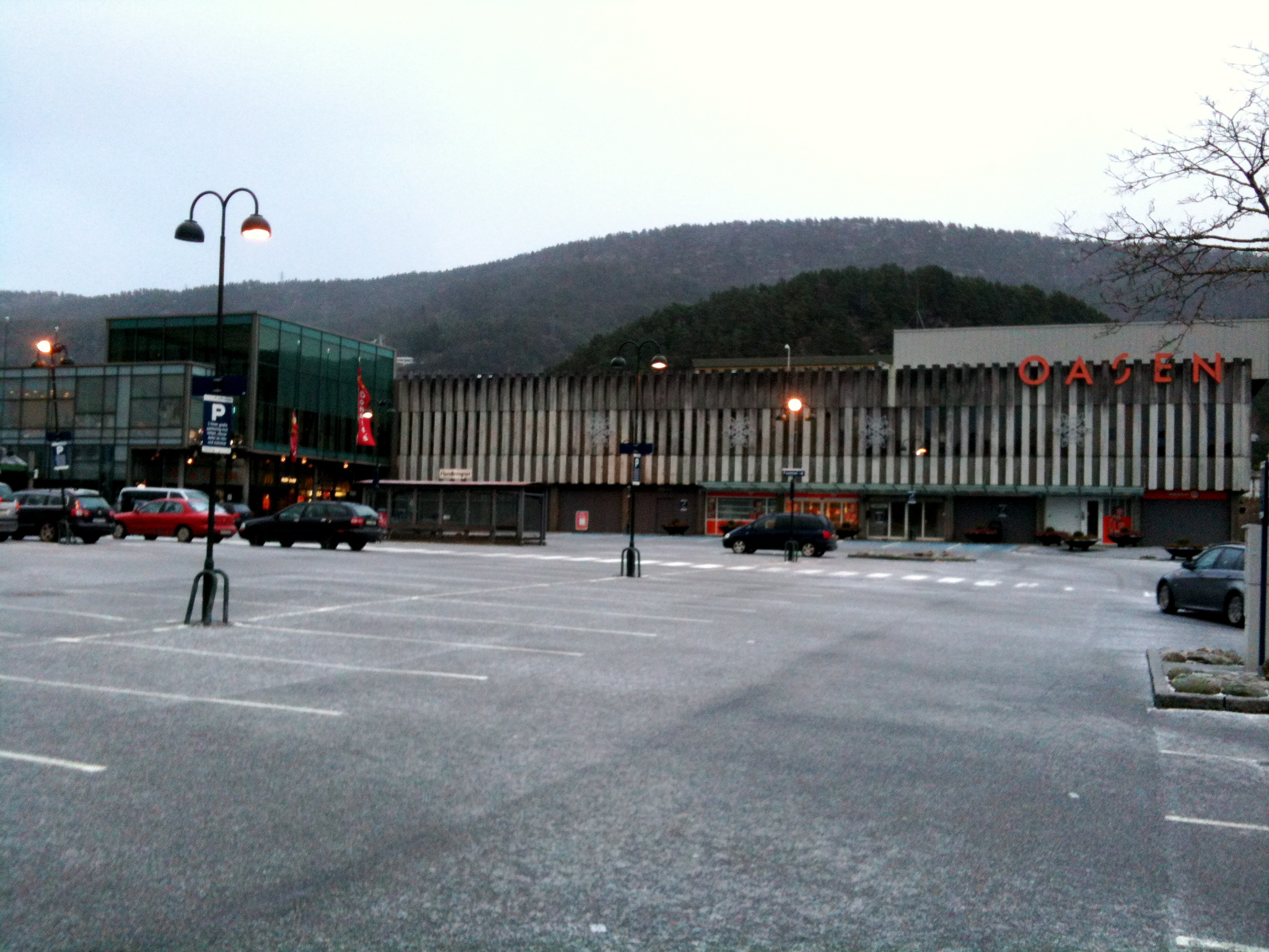 Oasen bydelssenter in Bergen, Norway